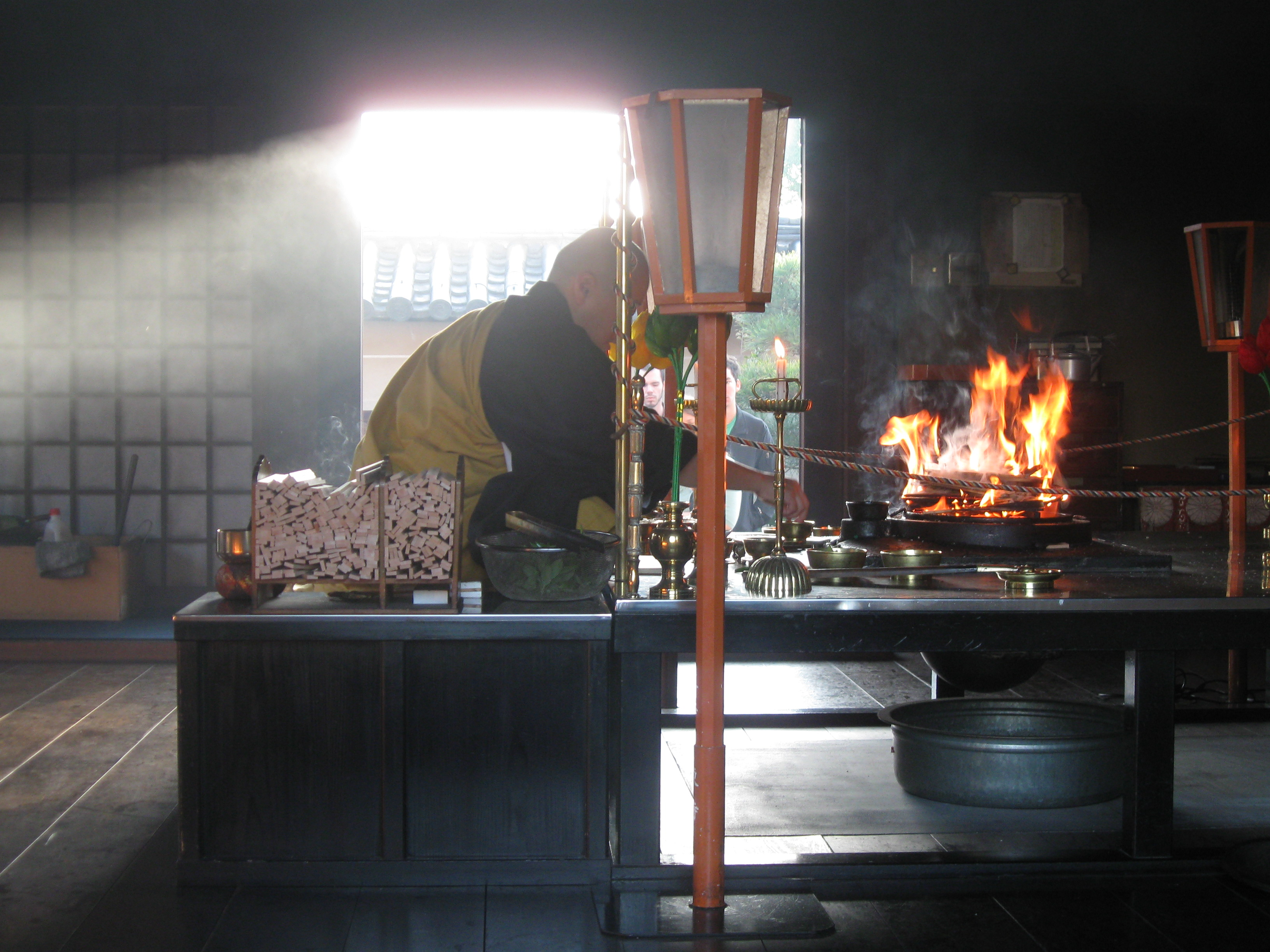 Shingon monk performs a goma ceremony at Touji temple in Kyouto.